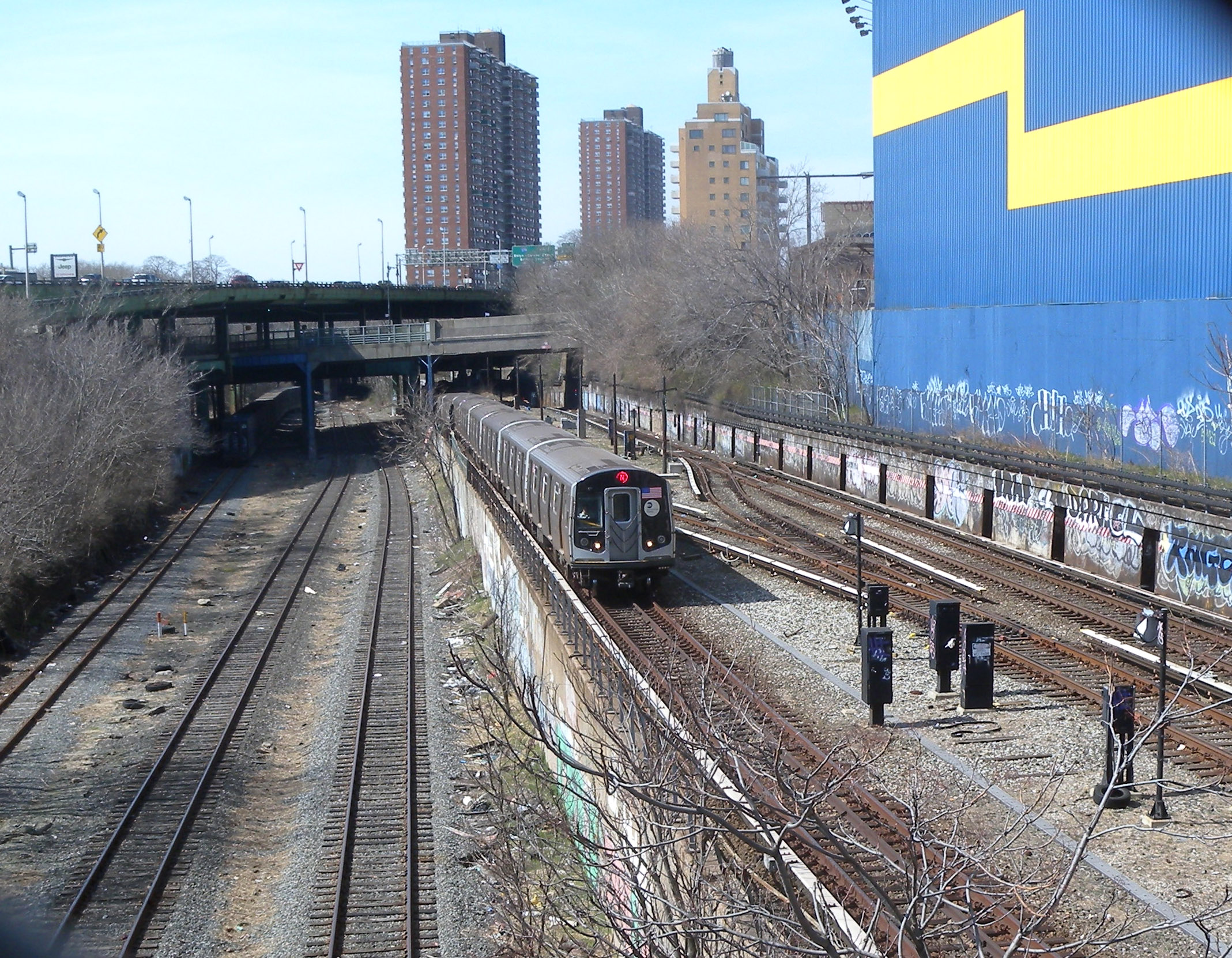 Loooking northwest from 6th Avenue overpass as N rain approaches on a sunny early afternoon. See File:BR LIRR E fr 5 Av jeh.JPG for same trackage from opposite overpass.